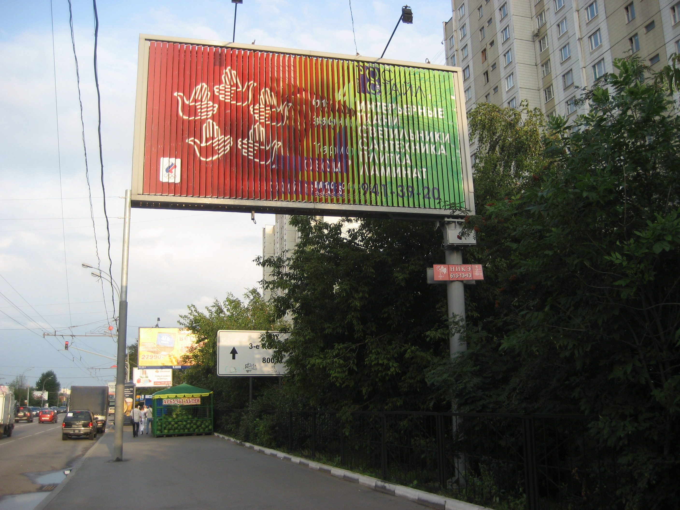 Prismavision